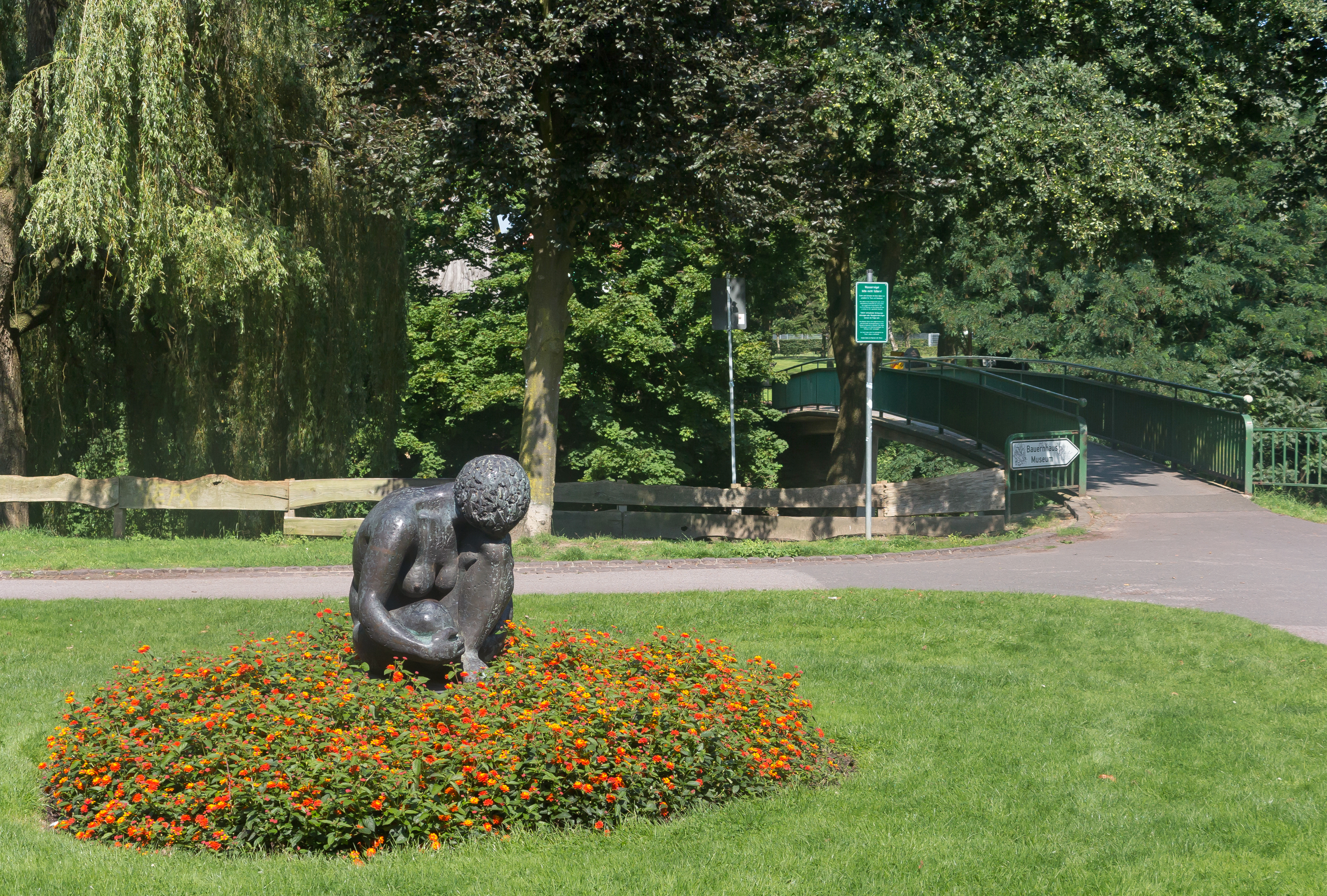 Vreden, sculpture near footbridge across the river (de Berkel)